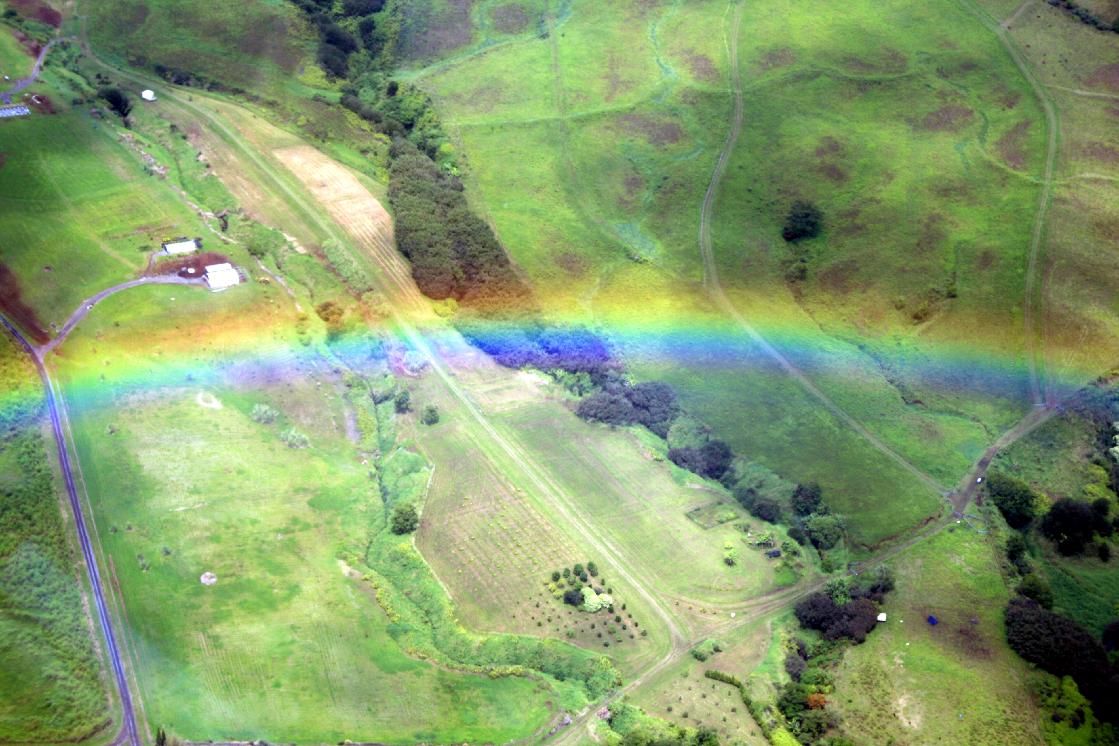 Rainbow. The picture was taken from a helicopter.